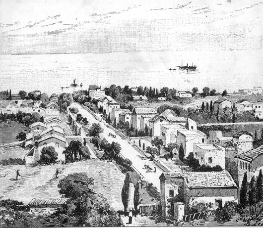 German Templer Colony in Haifa, woodcut, 1875